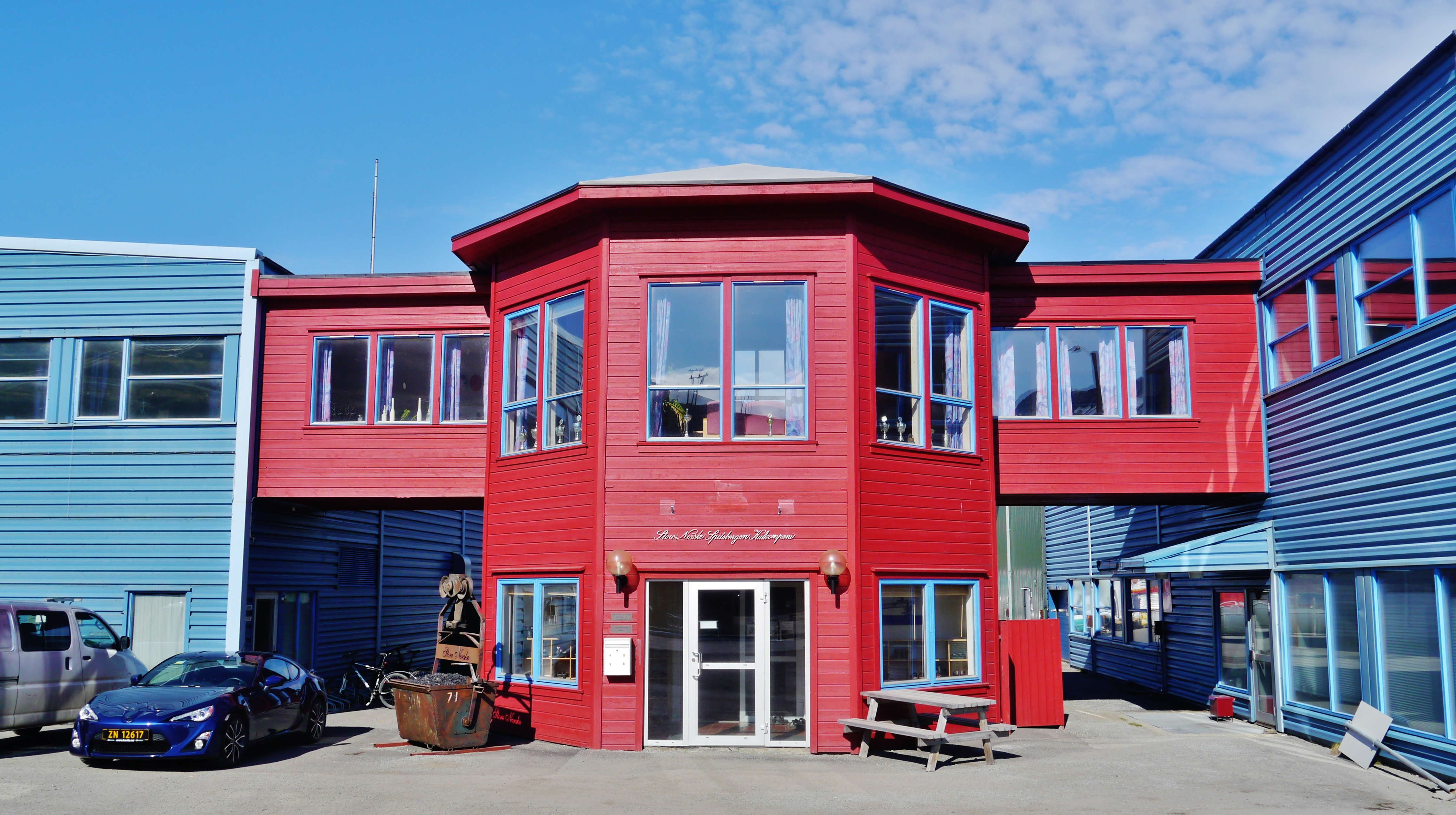 Building of the Mining Company, Longyearbyen, Spitsbergen, Norway